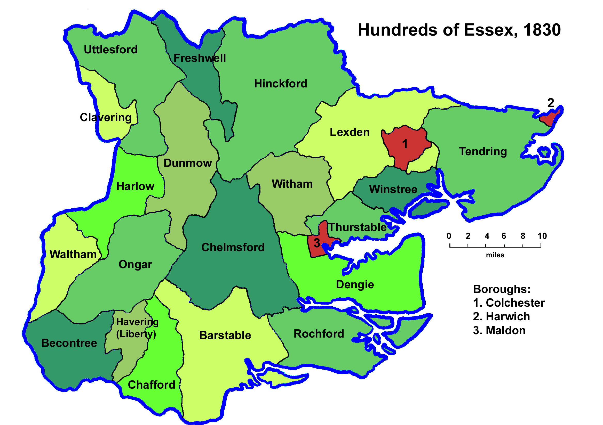 A map of the historic hundreds and boroughs of Essex, England, as of 1830.